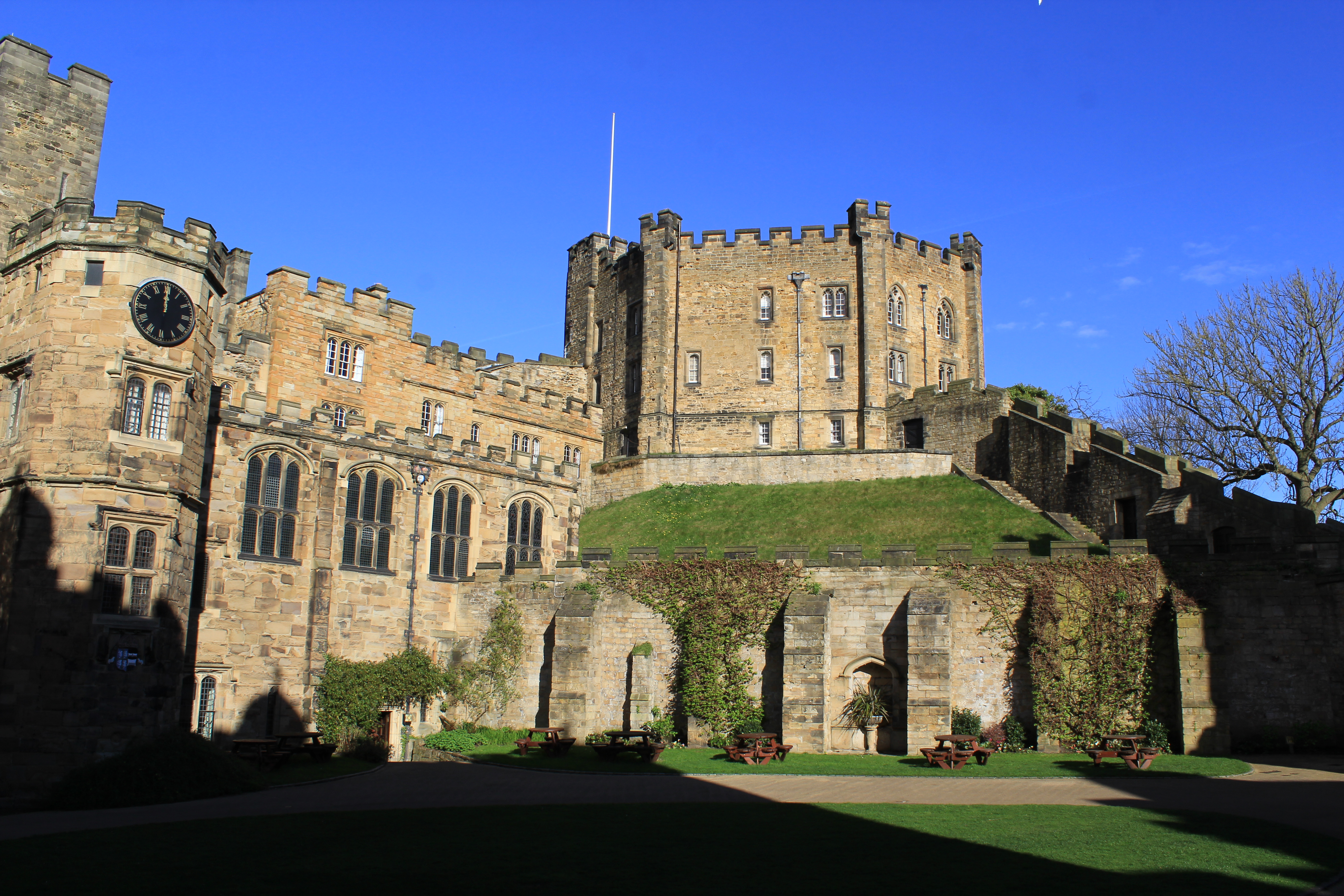 Durham Castle, April 2017 (14) This file was generated using equipment from Wikimedia UK, a Wikimedia local chapter.